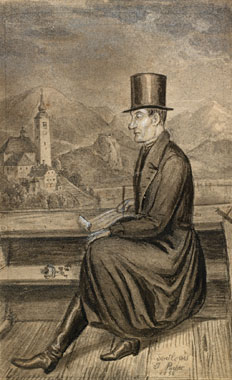 Gregor Rihar in a Boat at Bled